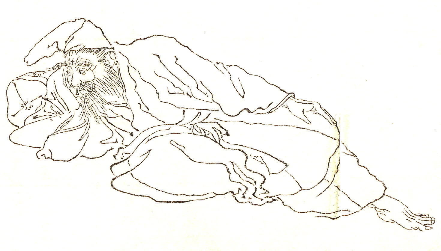 Sanuki no Naganao(讃岐永直) was a Japanese court noble and Scholar in the Heian era.